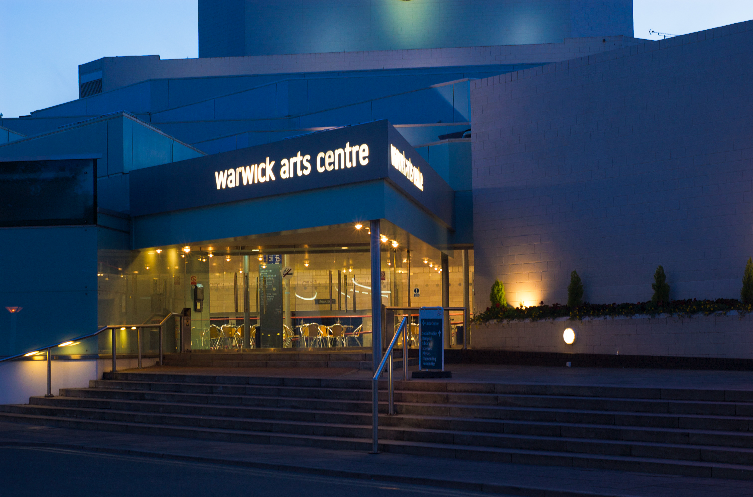 Warwick Arts Centre centre at night.